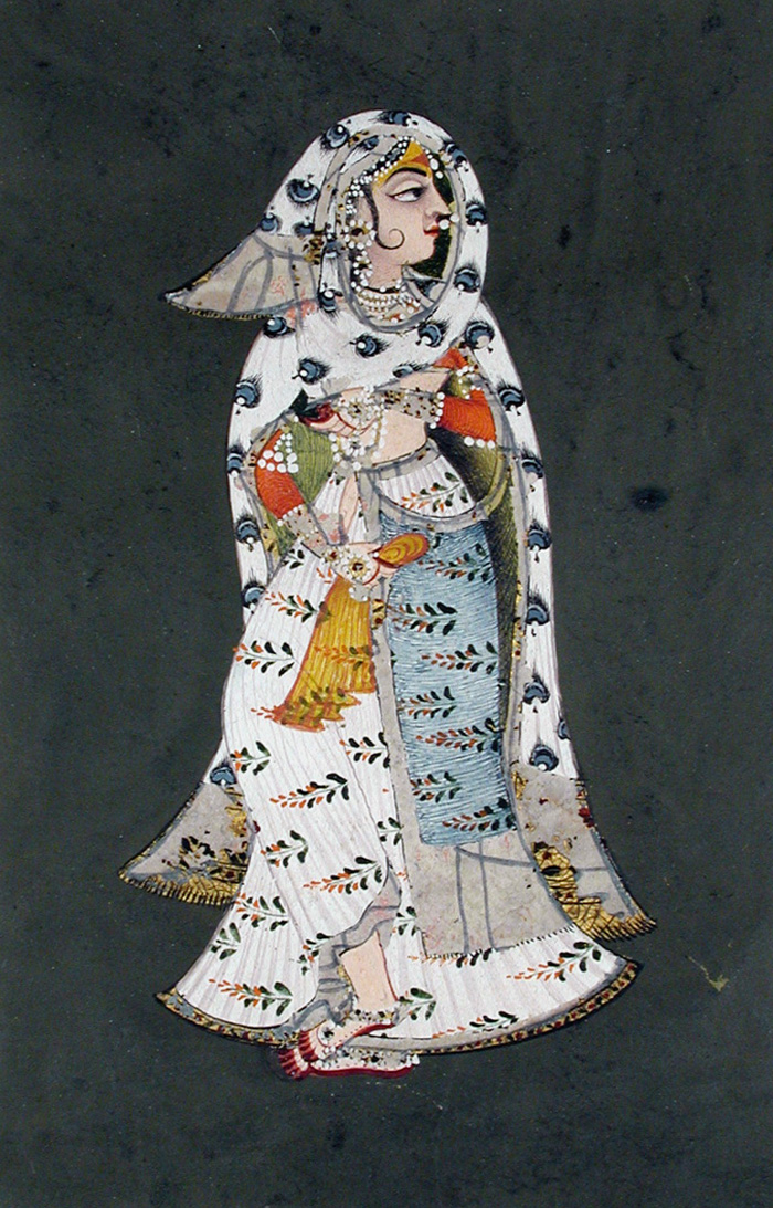 A standing woman in floral patterned white sari, a peacock-plume patterned cloak. Bundi, 18 century, San Diego Museum of Art